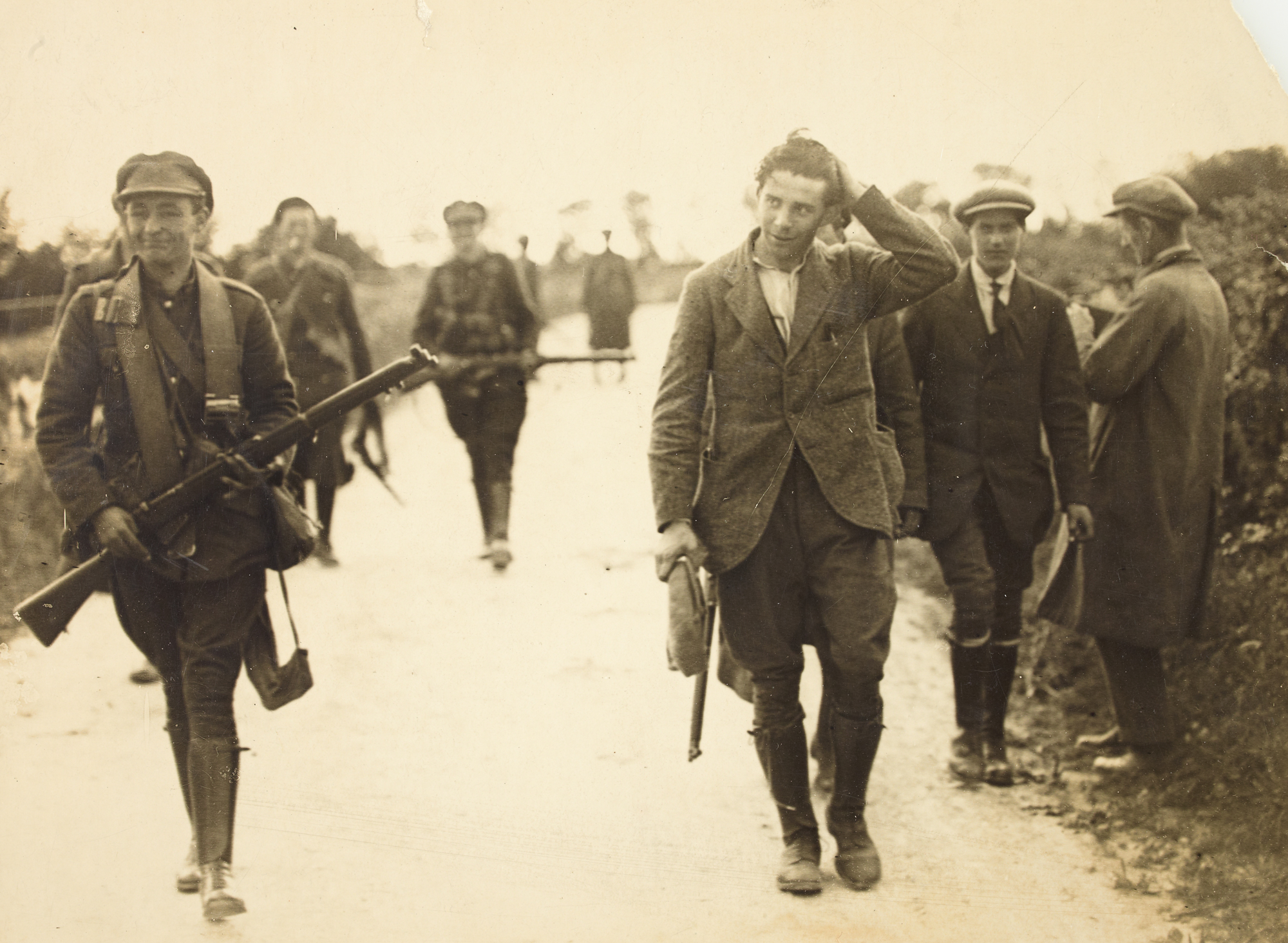 A prisoner under escort at the South Western Front during the Irish Civil War. Given the situation, everyone looks remarkably relaxed... Date: 22 July 1922 NLI Ref.: HOG106